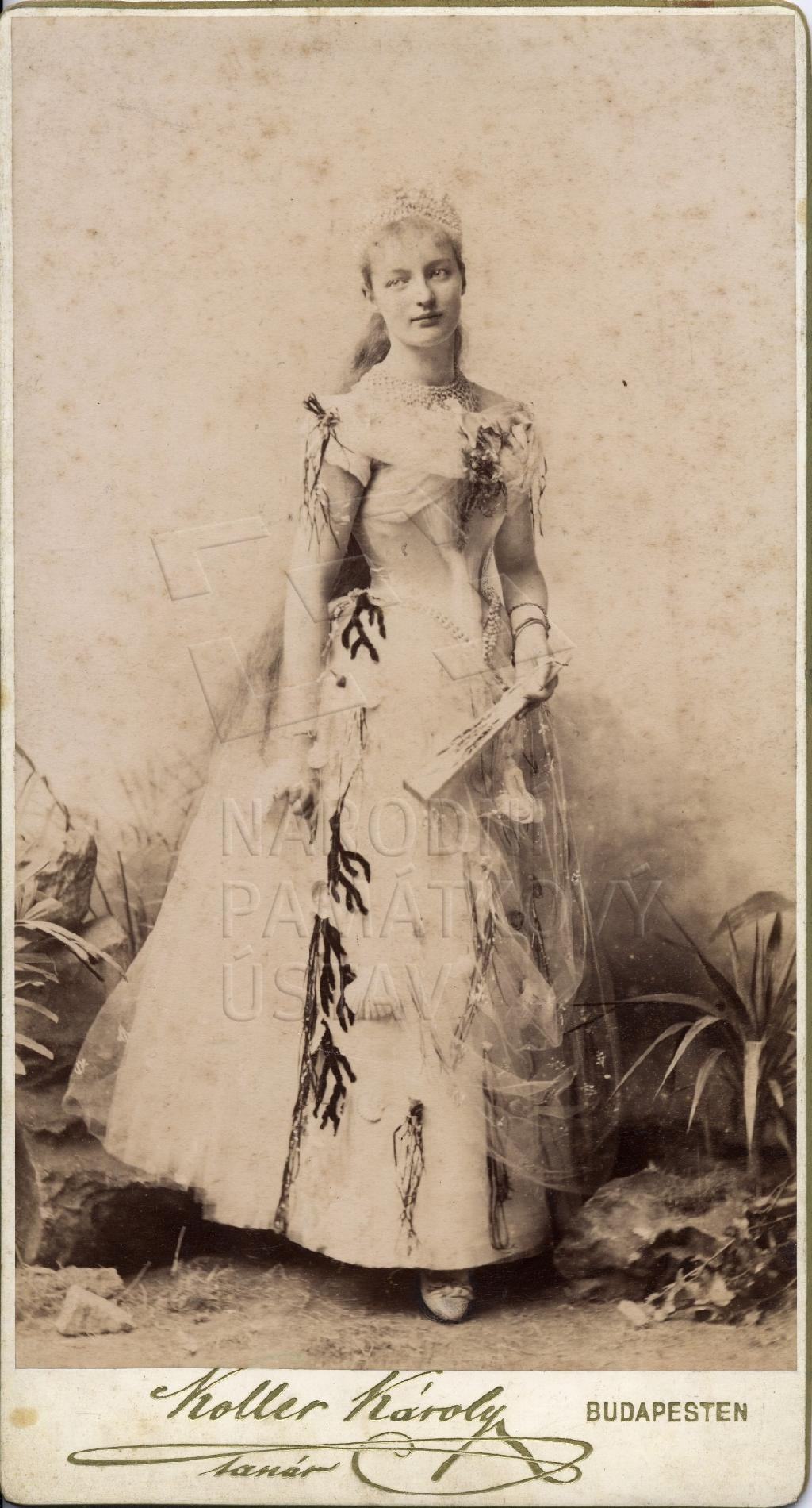 Archduchess Margarethe Klementine of Austria in carnival costume (Queen of Sea)